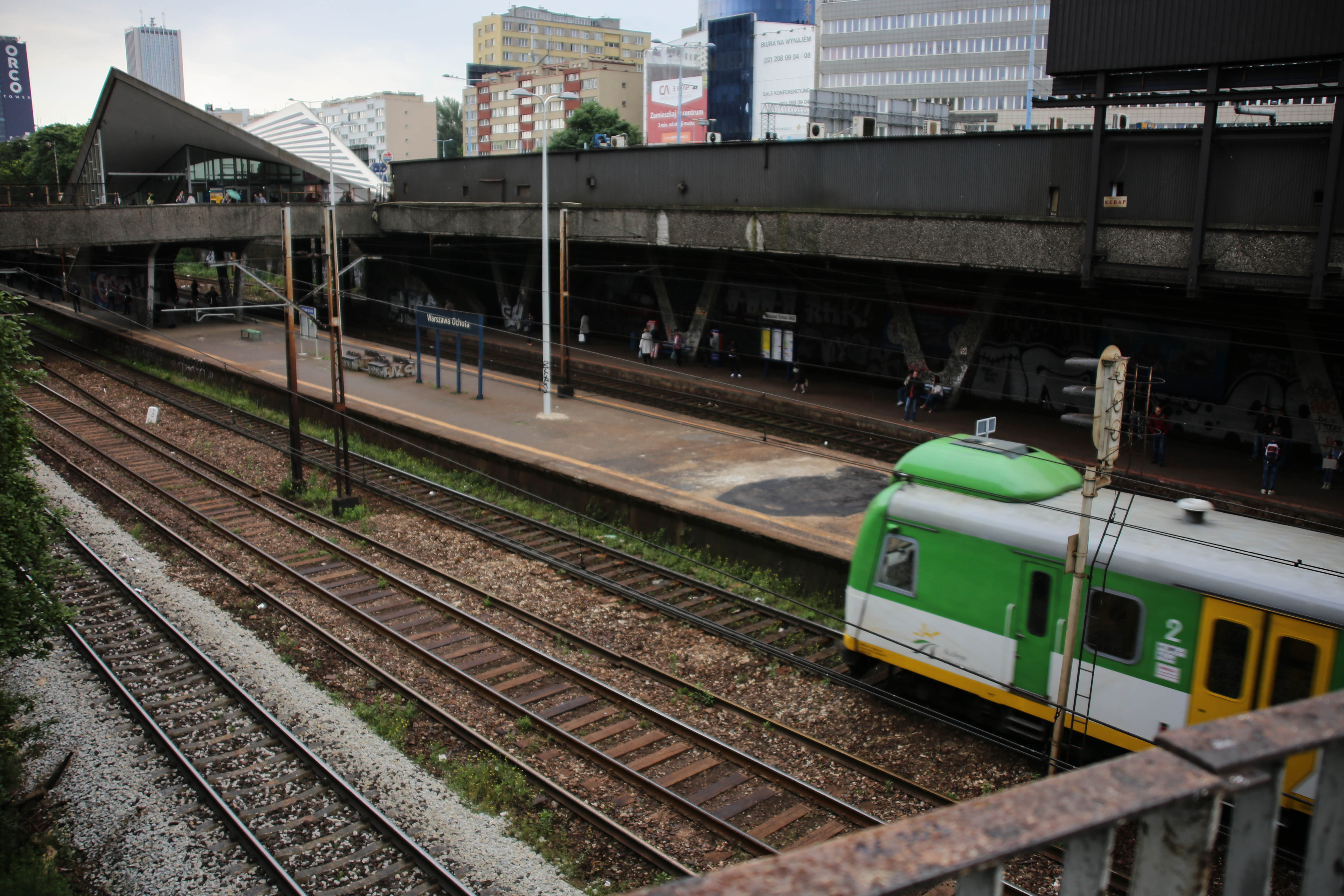 Commuter Train